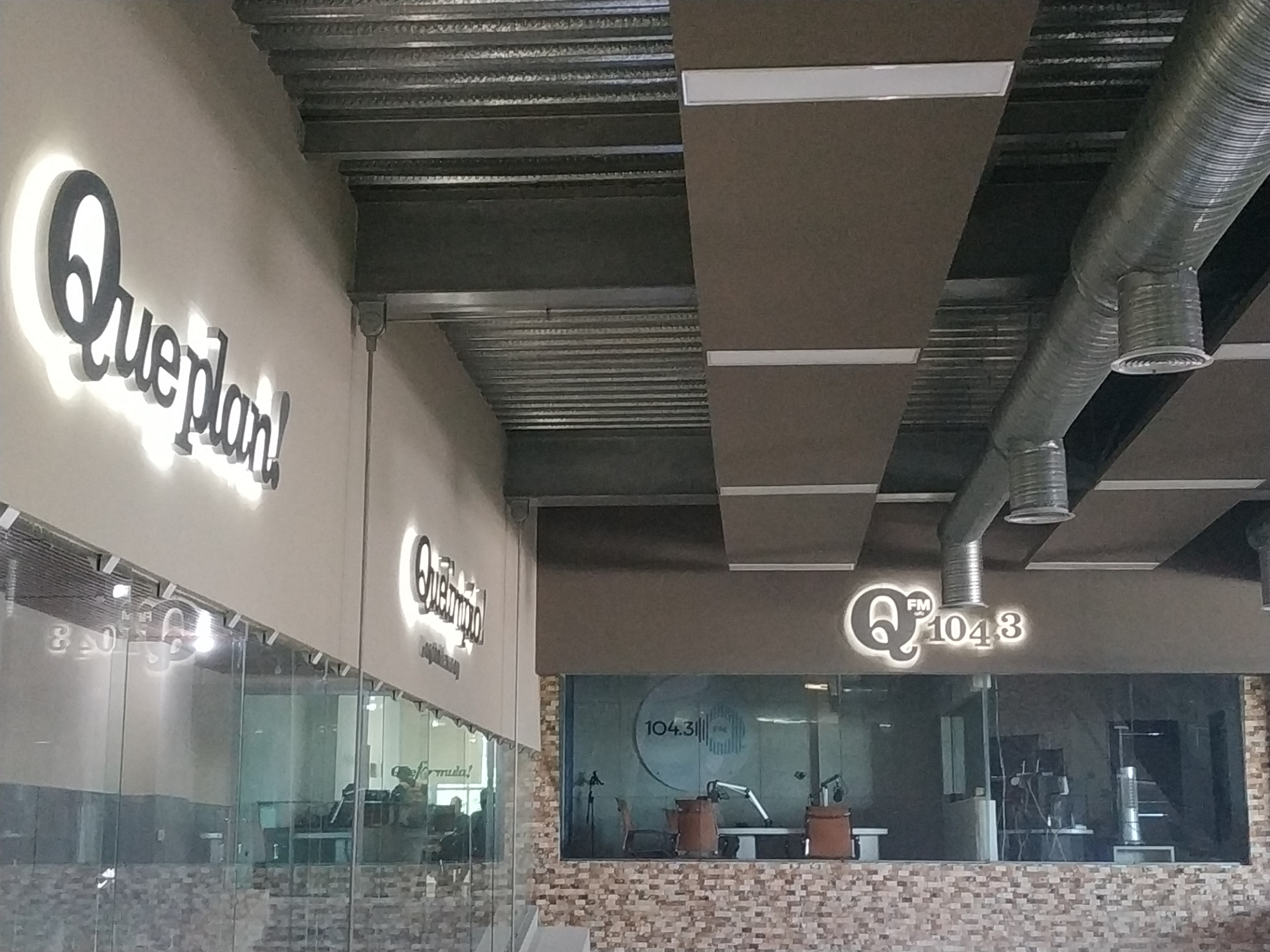 QFM Radio Station inside Grupo Quequi's Building.